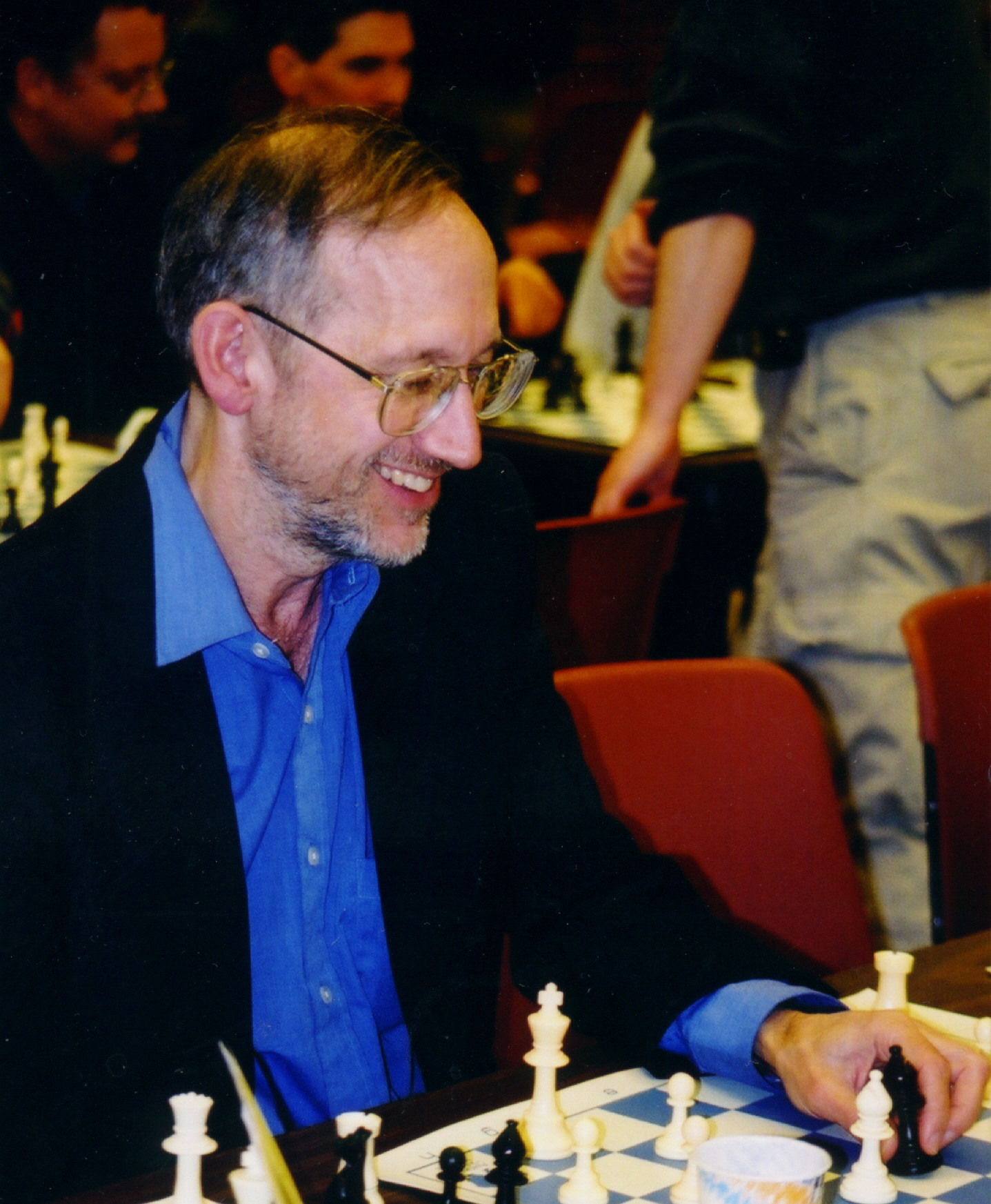 John Watson at the 2003 U.S. Chess Championships.